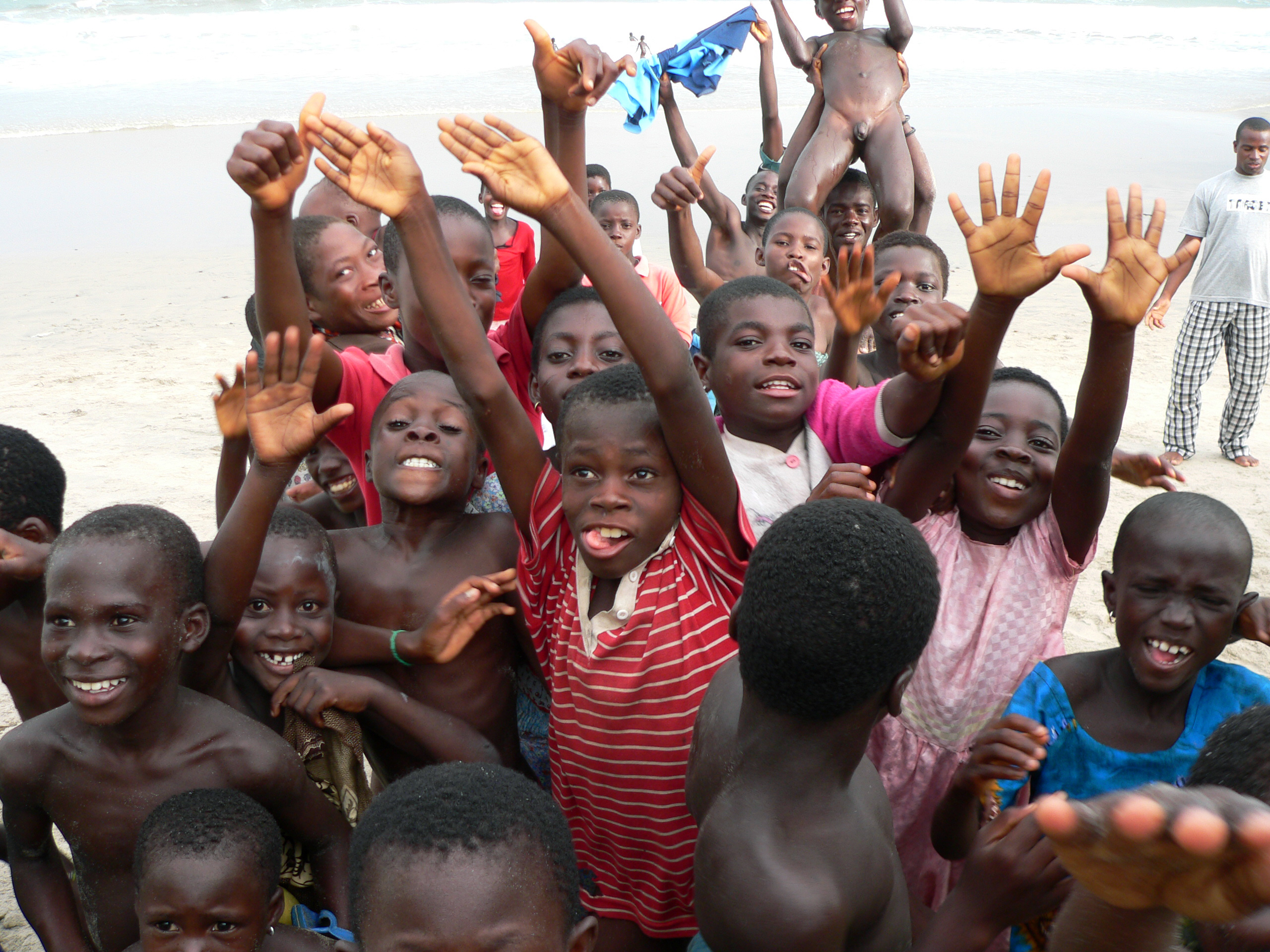 Children at Anamabu beach, Ghana